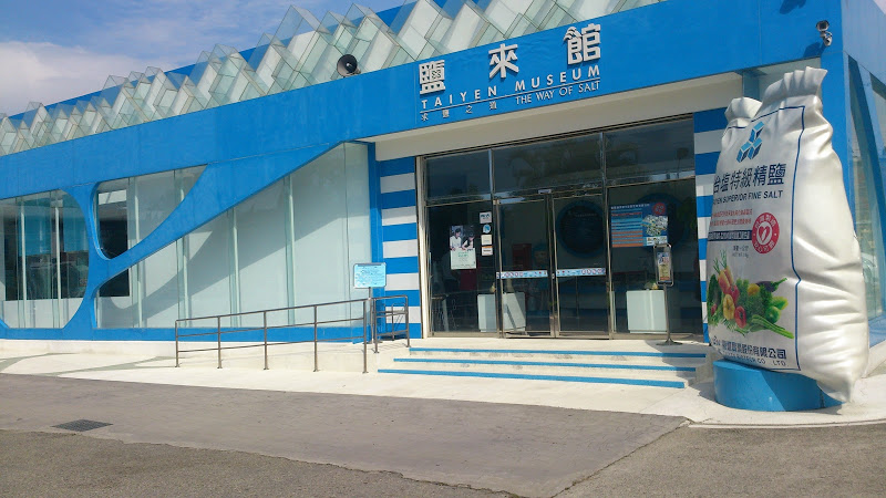 Taiyen Museum